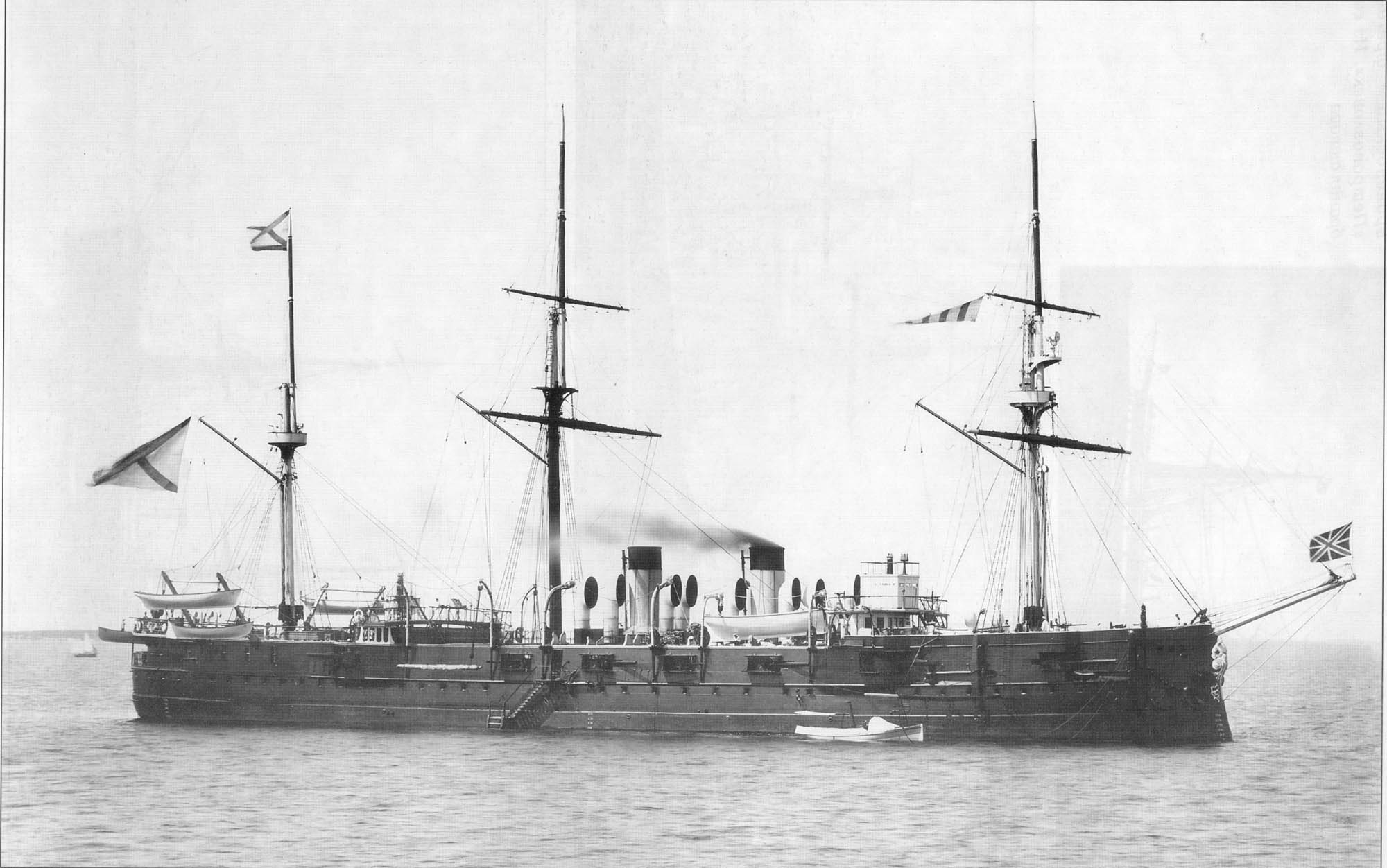 Imperial Russian armoured frigate Minin.